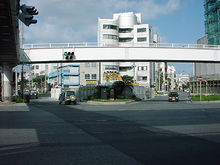 Izumizaki Intersection